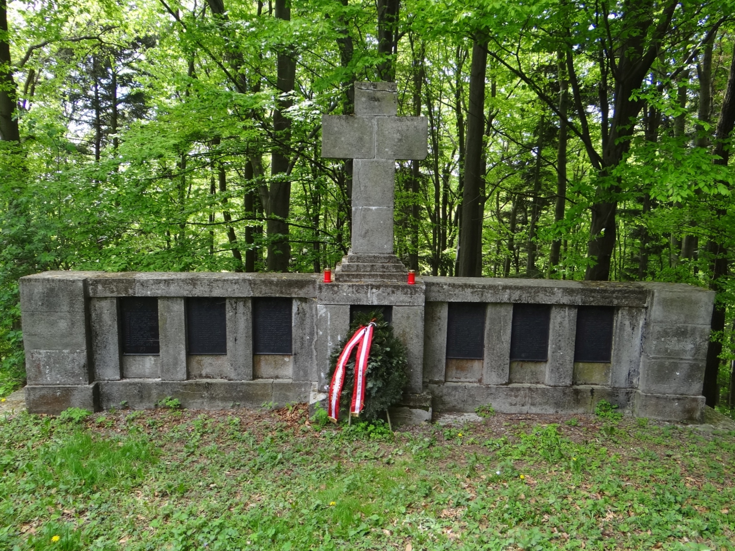 World War I Cemetery nr 185 in Lichwin